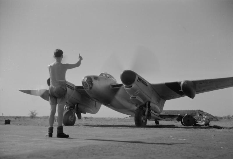 Royal Air Force Operations in the Far East, 1941-1945. Leading Aircraftman J S Gillam of Brighton, Sussex , signals a satisfactory engine-contact to the pilot of a De Havilland Mosquito PR Mark XVI of No. 684 Squadron RAF in its dispersal at Alipore, India..